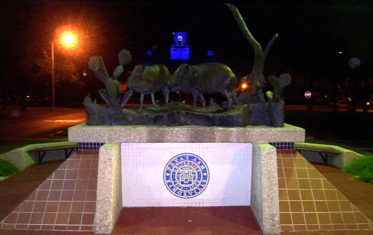 Tower at Texas A&M University–Kingsville lit up in school colors after a victory. Javelina statue in foreground.